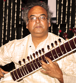 Professor Sanjoy Bandopadhyay is the Chair Professor at the Rabindra Bharati University, Kolkata [India] and an eminent musician.